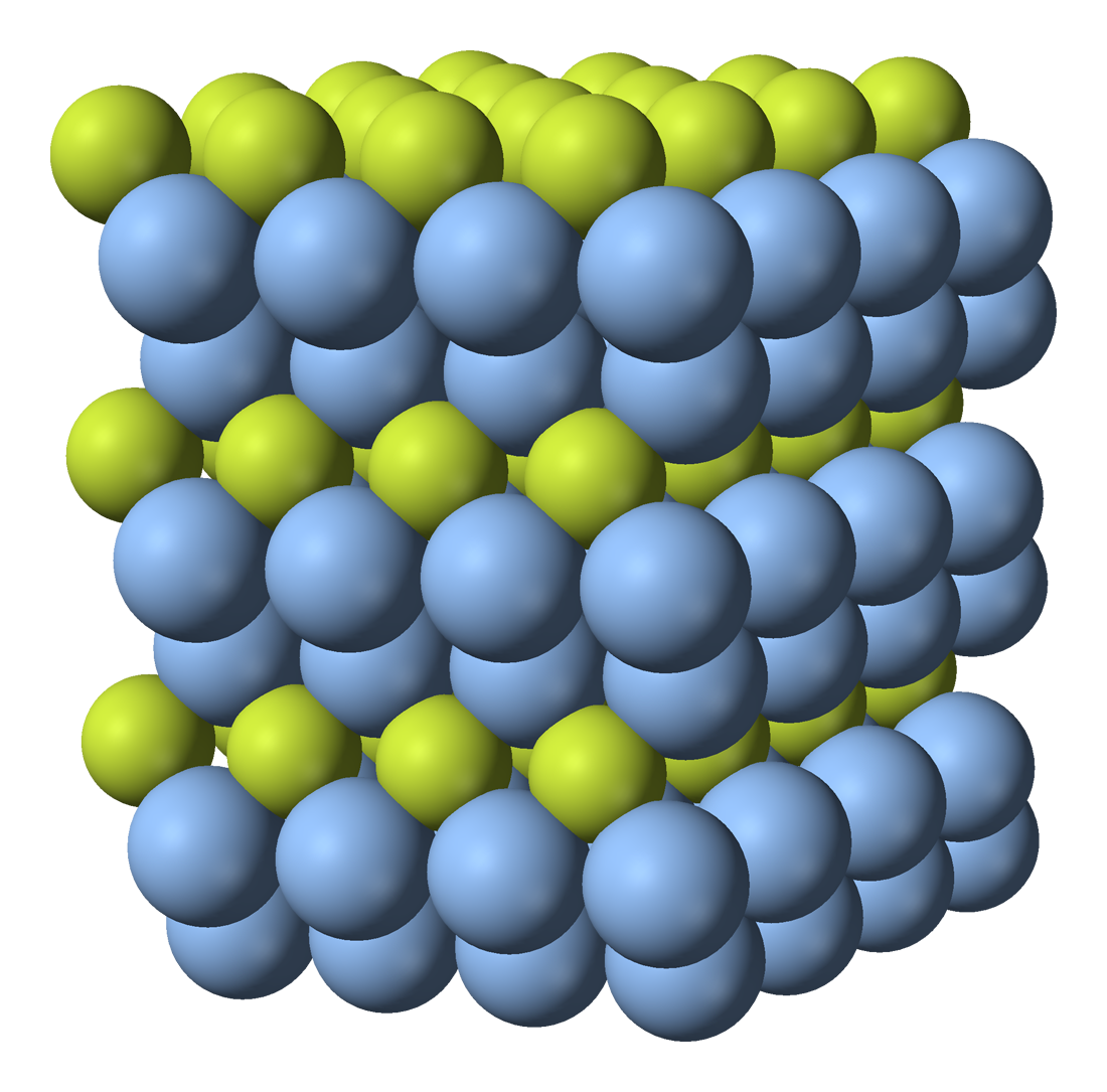 Space-filling model of the part of the crystal structure of silver subfluoride, Ag2F. Crystal structure data from [=11580 the ICSD].